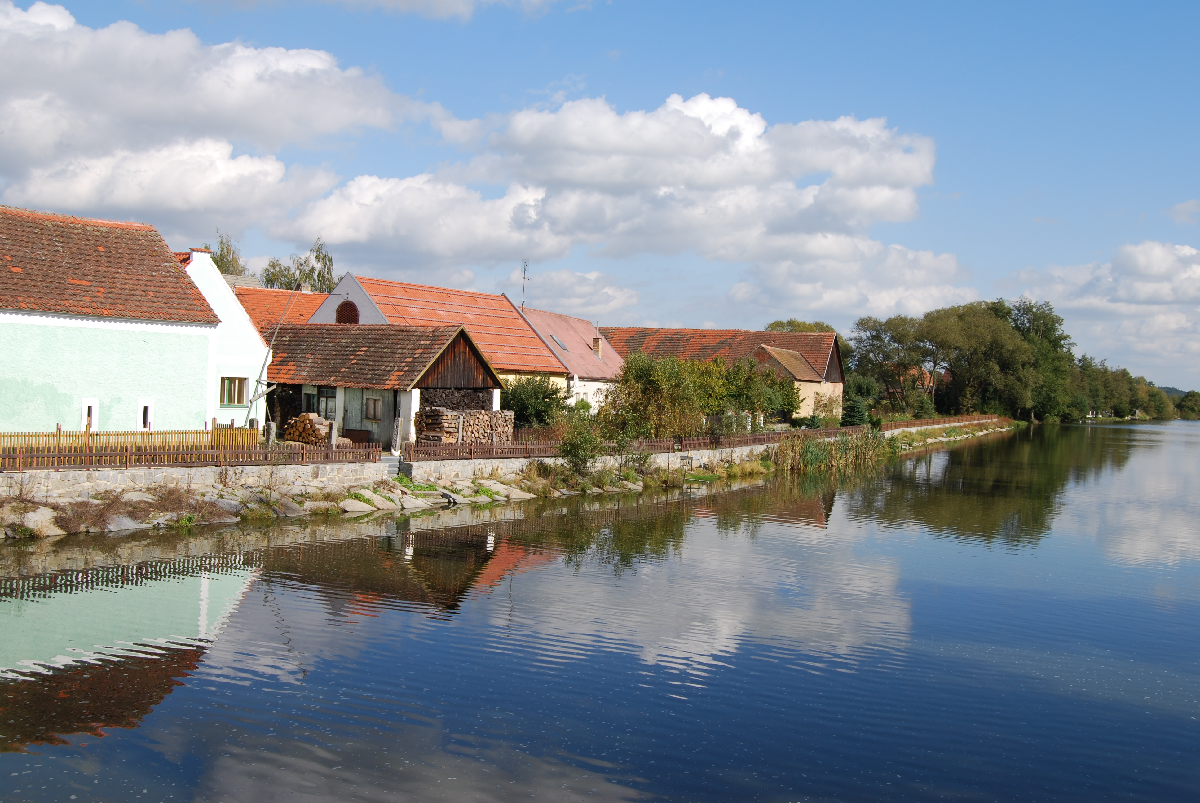 Tchořovice village in Strakonice District, Czech Republic. Dolejší pond